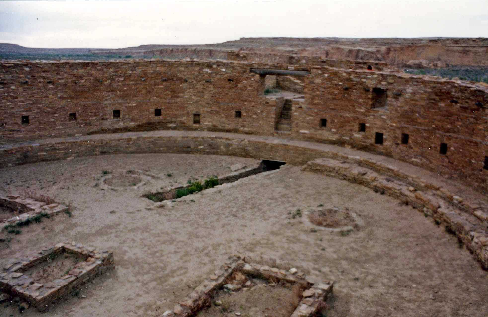 A Great Kiva at Chaco Canyon